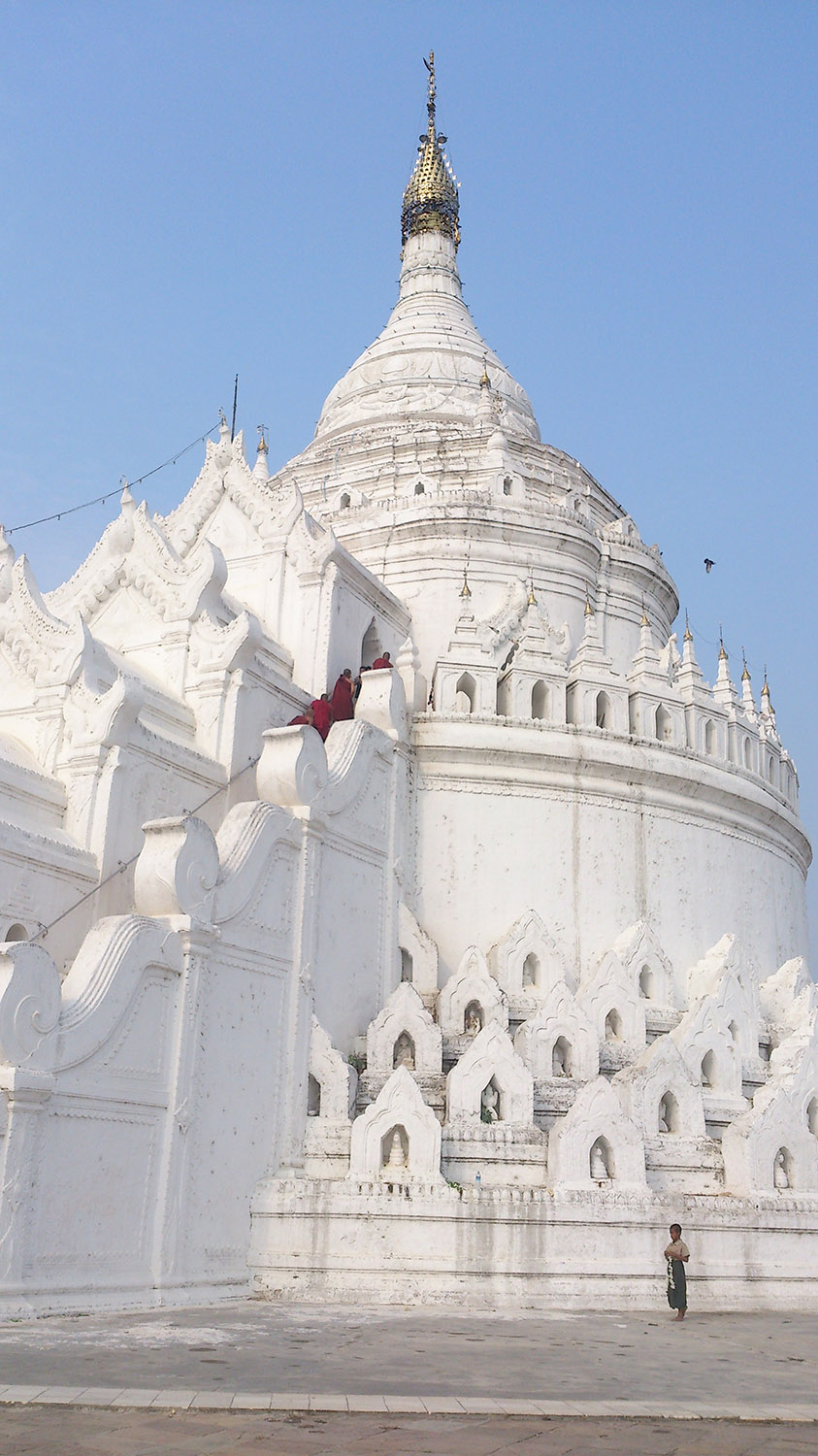 Mya Thein Tan Pagoda, Sin Phyu Pagoda, Shin Phyu Pagoda, Hsinbyume Pagoda